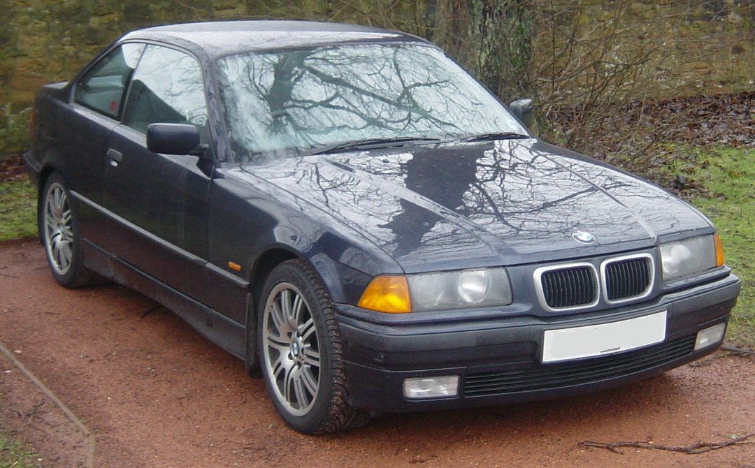 created by Mazurka